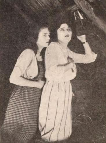 Still from the American western film Man of the Forest (1921) with Eugenia Gilbert and Claire Adams, on page 75 of the April 30, 1921 Exhibitors Herald.